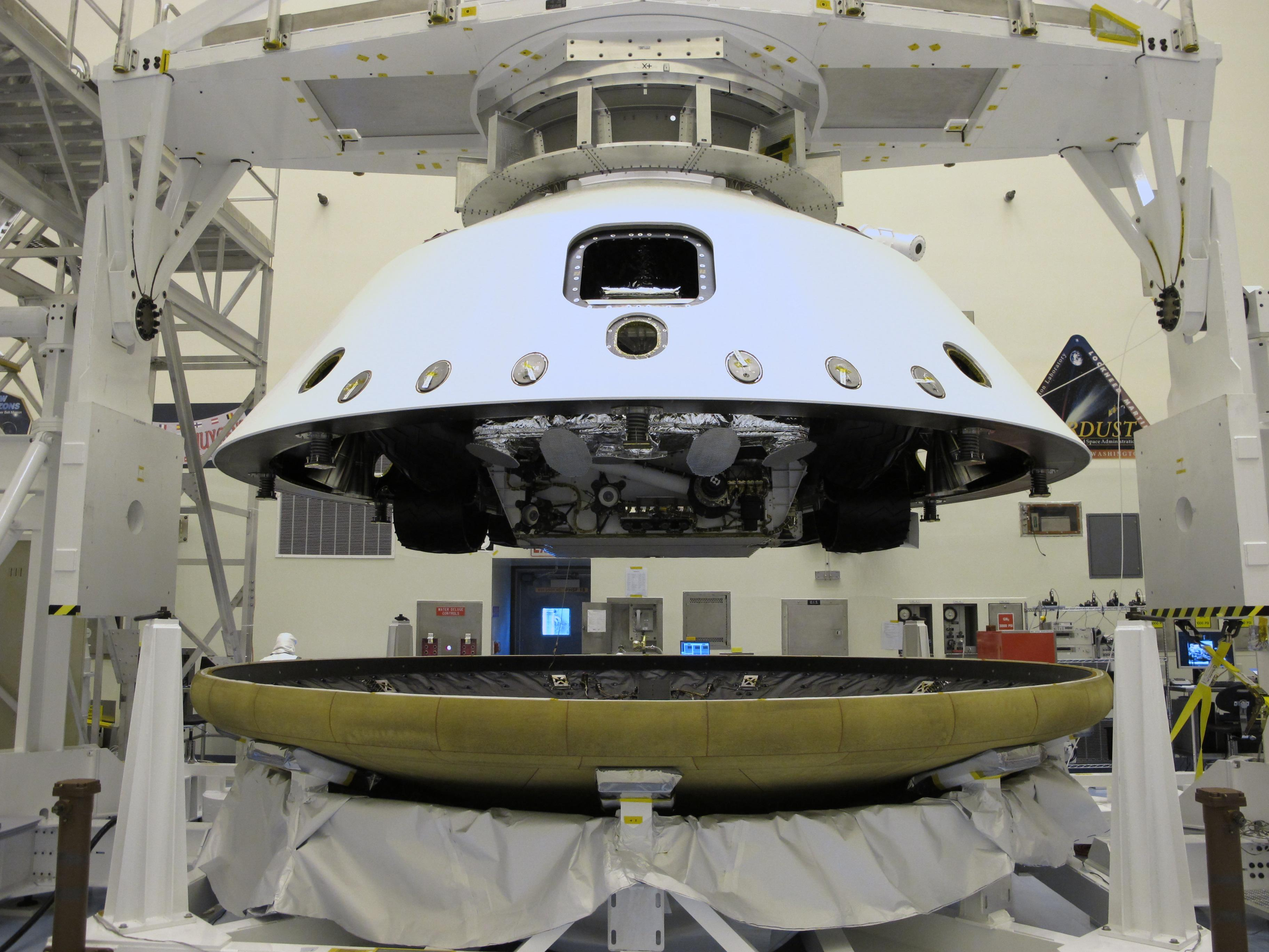 Connecting Curiosity's Heat Shield and Back Shell At the Payload Hazardous Servicing Facility at NASA's Kennedy Space Center in Florida, the "back shell powered descent vehicle" configuration, containing NASA's Mars Science Laboratory rover, Curiosity, is being placed on the spacecraft's heat shield. The heat shield and the spacecraft's back shell together form an encapsulating aeroshell that will protect the rover from the intense heat that will be generated as the flight system descends through the Martian atmosphere.